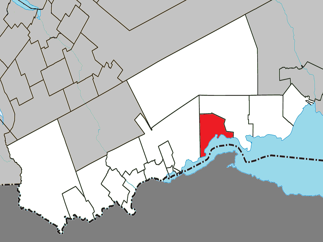 Location of Escuminac, Quebec within Avignon Regional County Municipality.